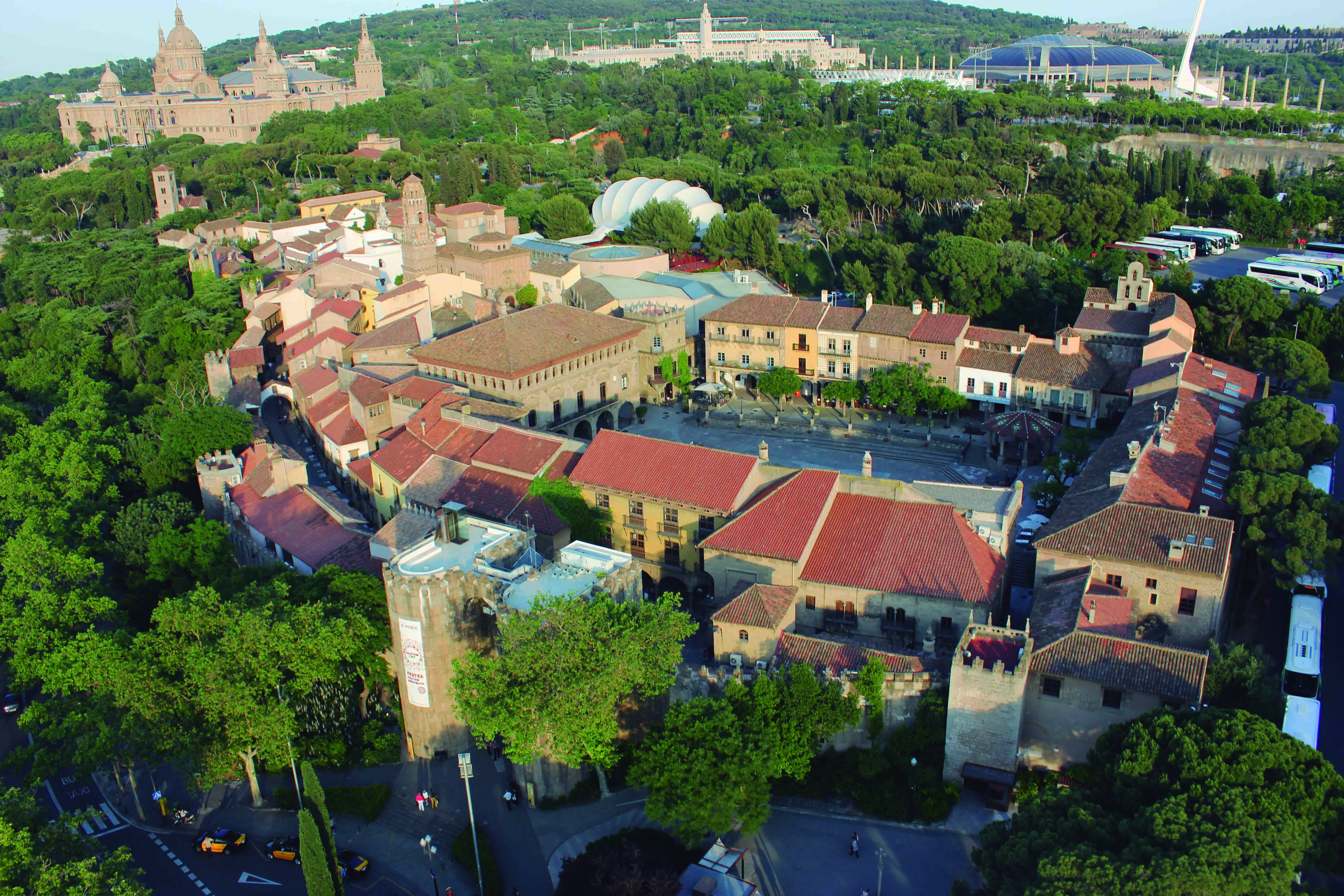 Aerial view from Poble Espanyol